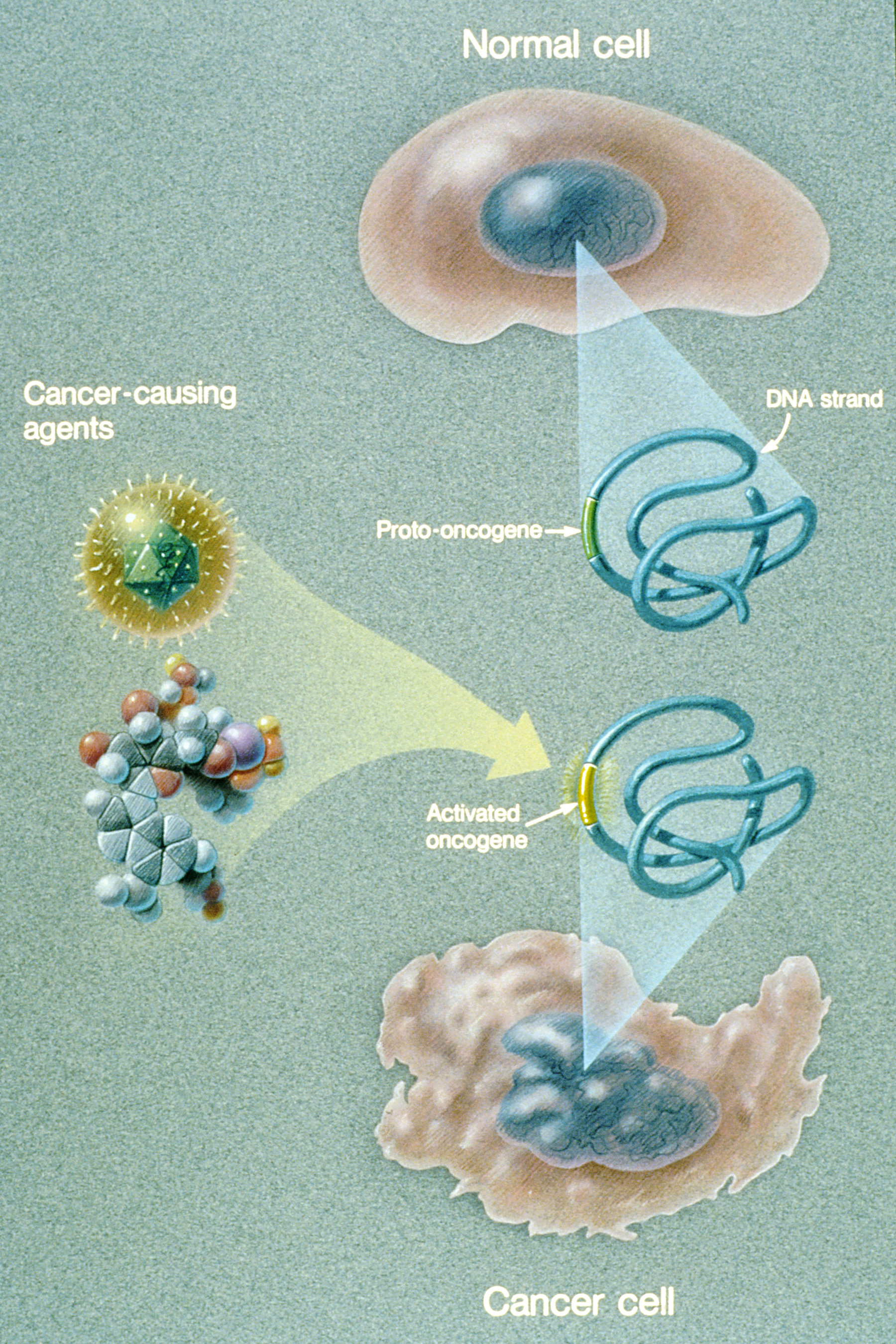 Title Oncogene Activation Illustration Description This illustration explains how a normal cell becomes a cancer cell. An oncogene in a normal cell appears to regulate and influence cell growth and division. When a cancer causing agent affects a cell's DNA and the oncogene is activated, a cancer cell develops. Topics/Categories Cells or Tissue, Abnormal Cells or Tissue Historical, Graphics Type Color, Illustration Source National Cancer Institute